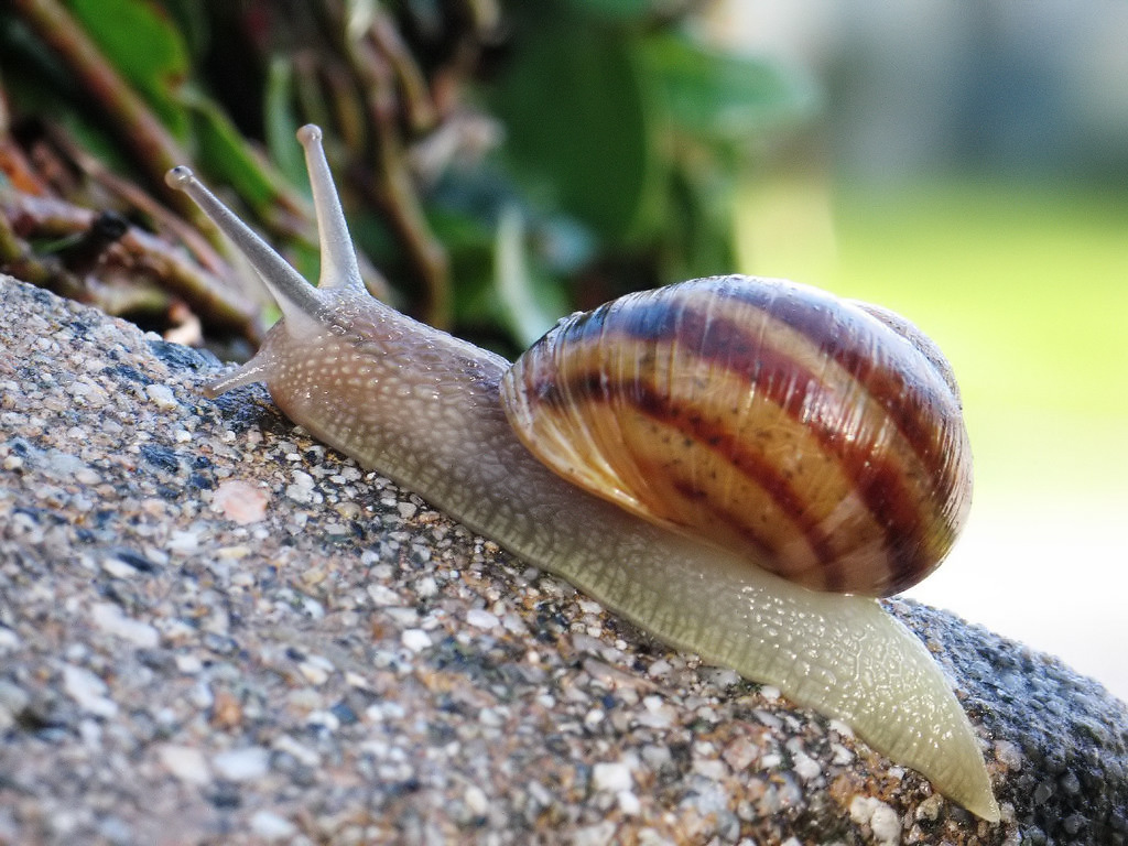 Common variety snail Comment by F. Welter-Schultes (03.2011): This is a Helix species, but certainly not Helix aspersa (it lacks the characteristic pattern of spots). Without locality it is difficult to say which species it represents.